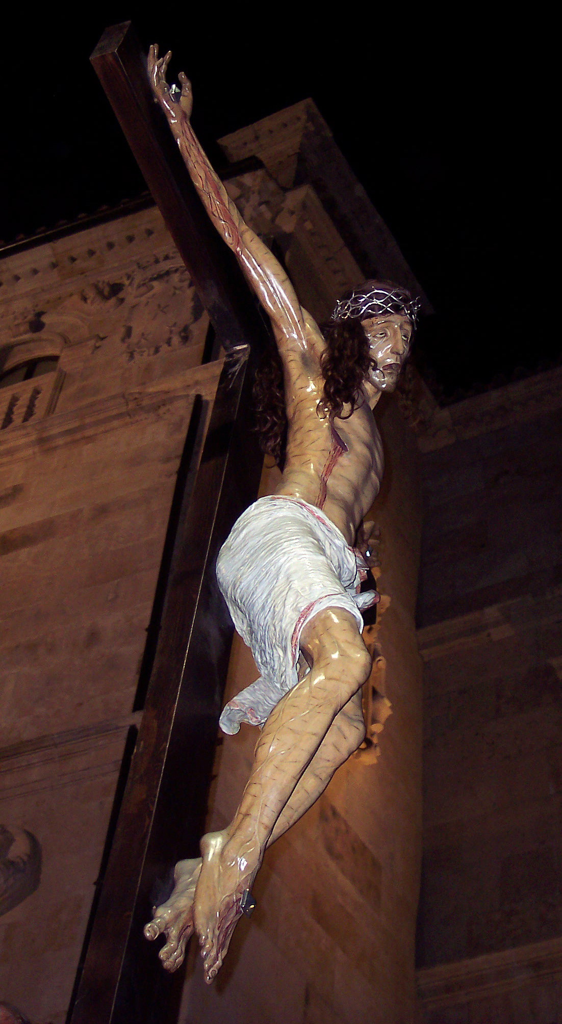 Christ of the Redeeming Agony, New Cathedral of Salamanca, Spain